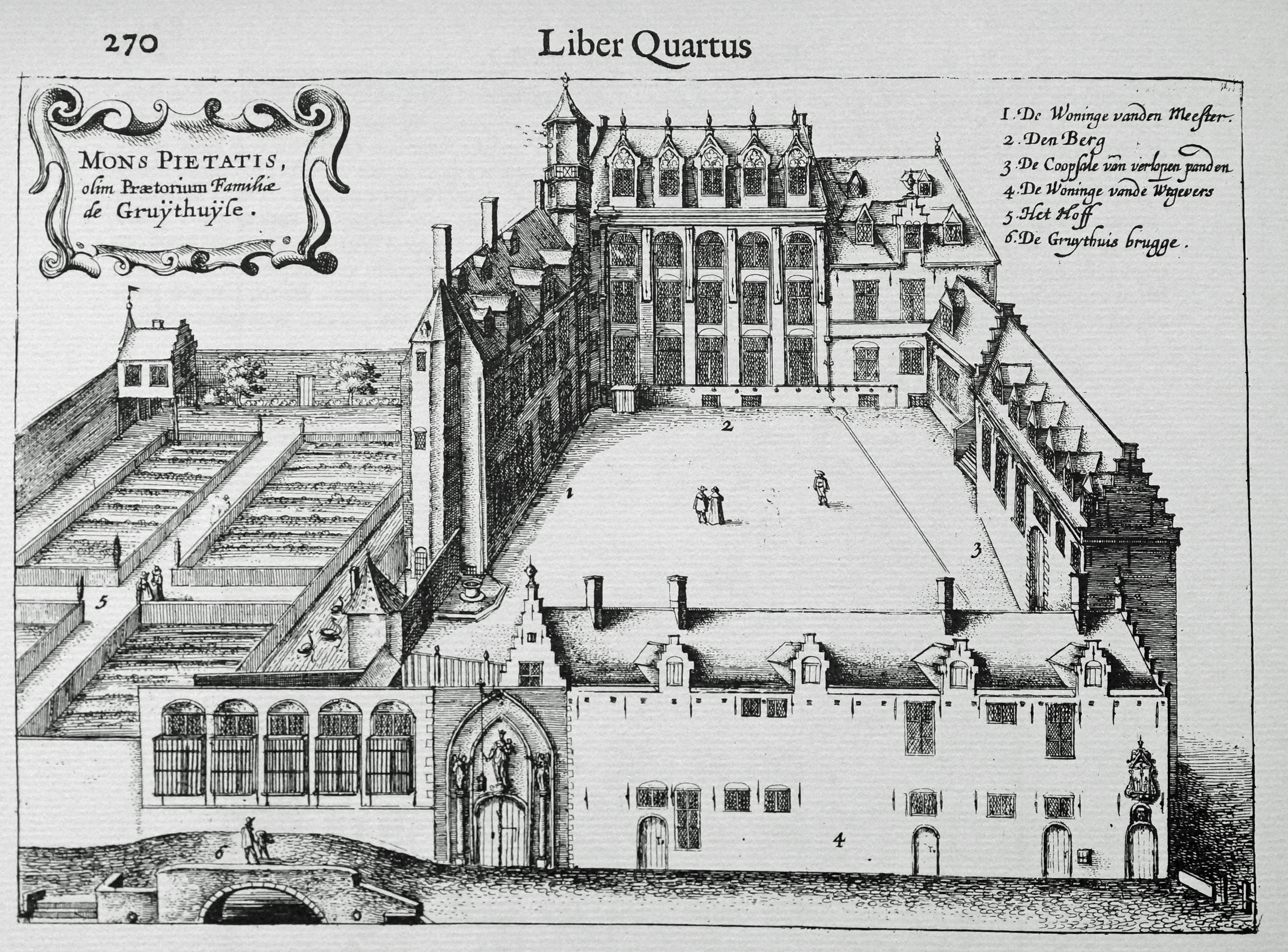 Bruges (Musée Gruuthuse), Belgium: Page 270 of Antoon Sanders Flandria Illustrata